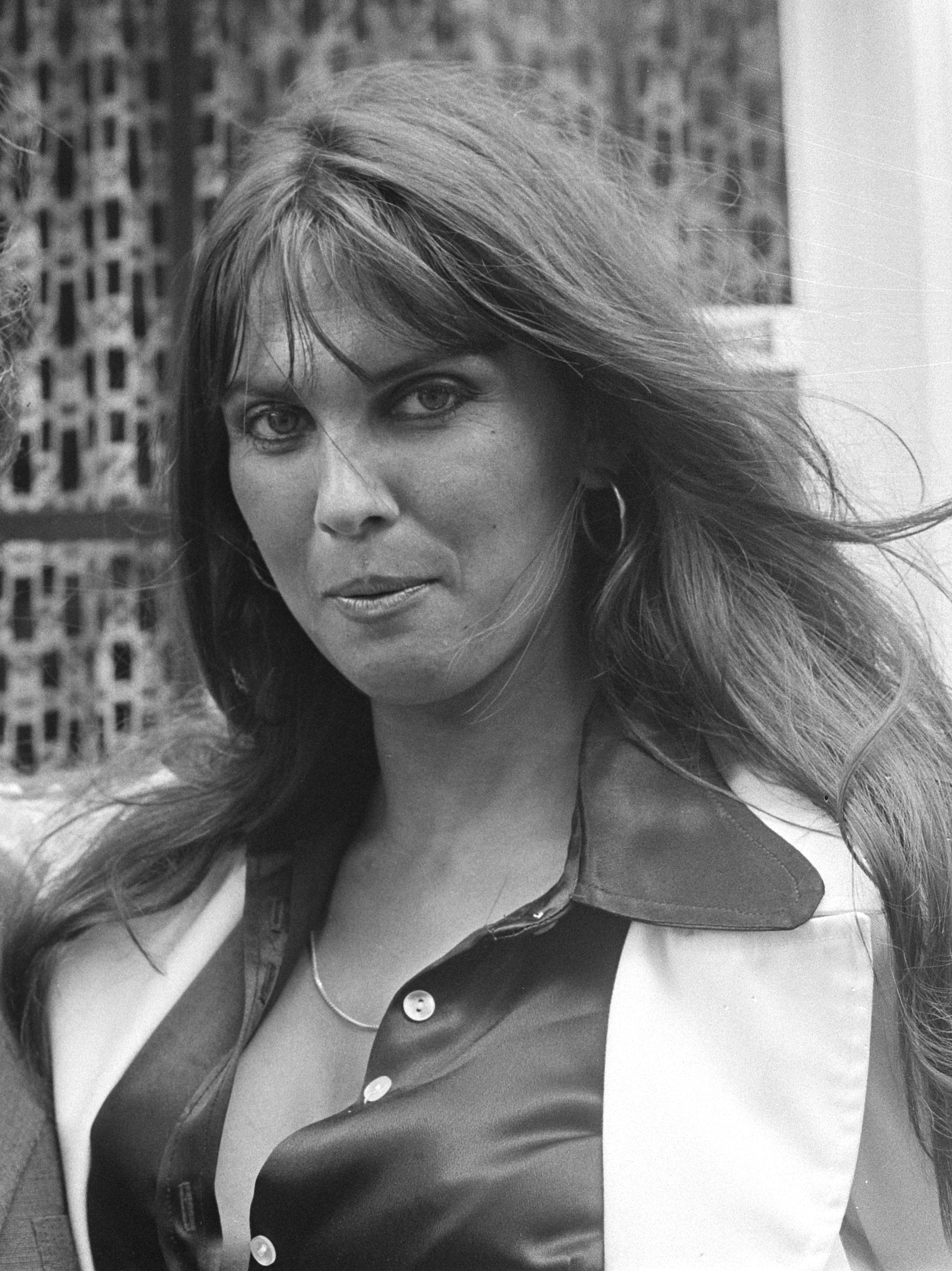 Bust length portrait of actress Caroline Munro.